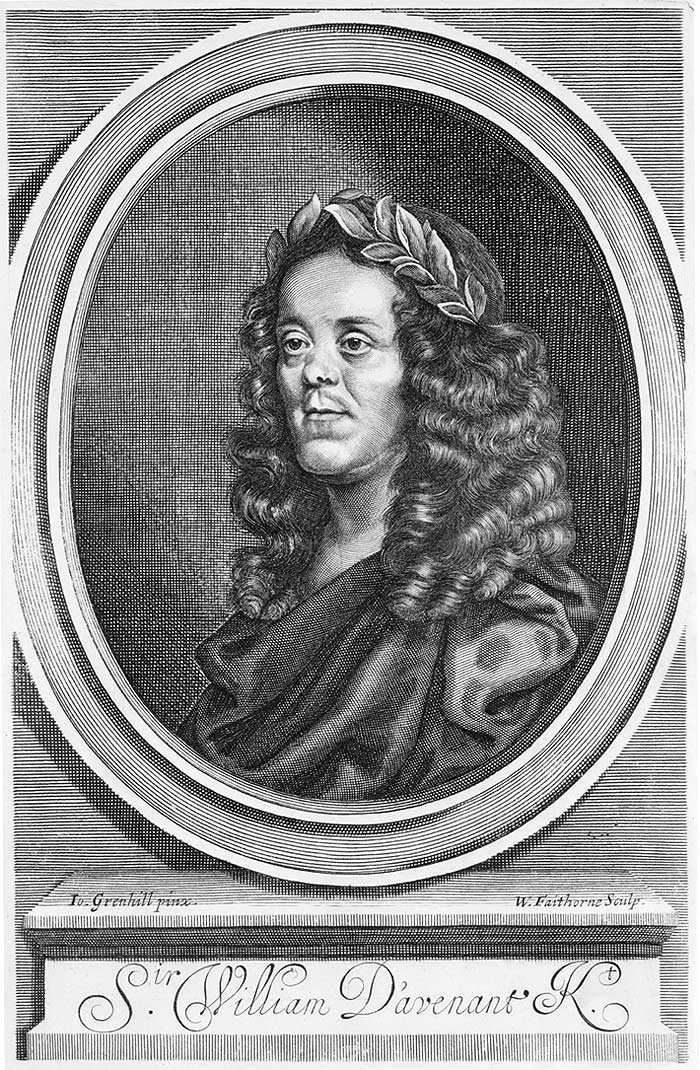 William Davenant, operator of one of the first licensed theatre companies after the Restoration of Charles II in 1660. From The Works of Sir William Davenant, frontispiece, printed by TN for Henry Herringman, London, 1673.